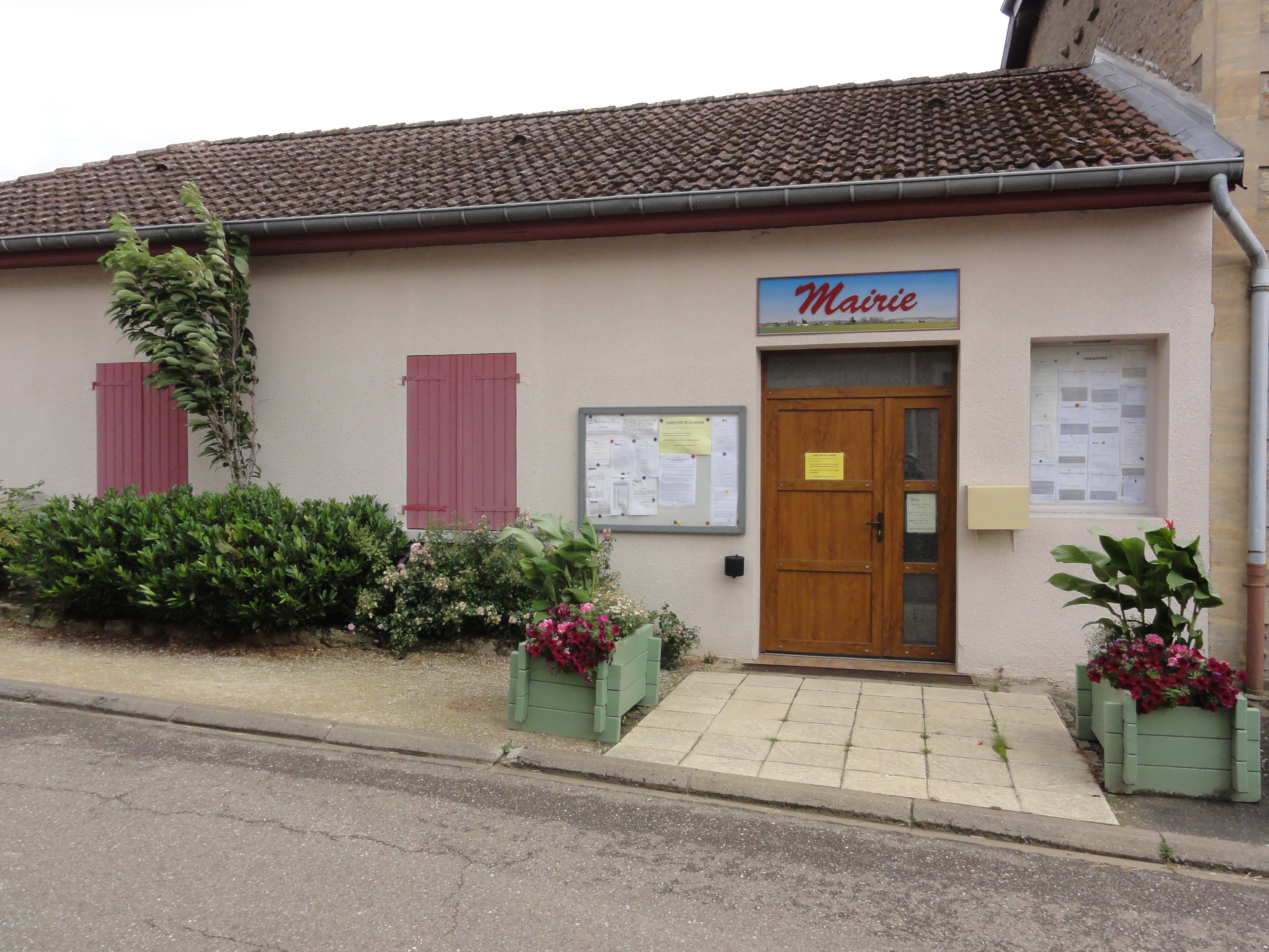 Baslieux (Meurthe-et-M.) mairie